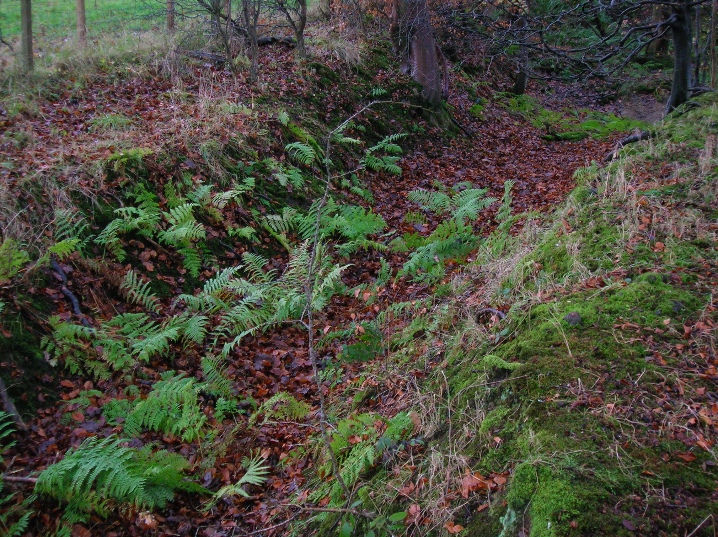 Old course of the Monkcastle Burn when diverted during the quarrying operations. Old Monkcastle, Dalry, Ayrshire, Scotland.